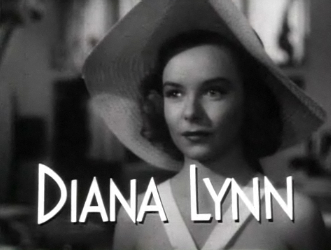 Screenshot of Diana Lynn from the trailer for the film Every Girl Should Be Married